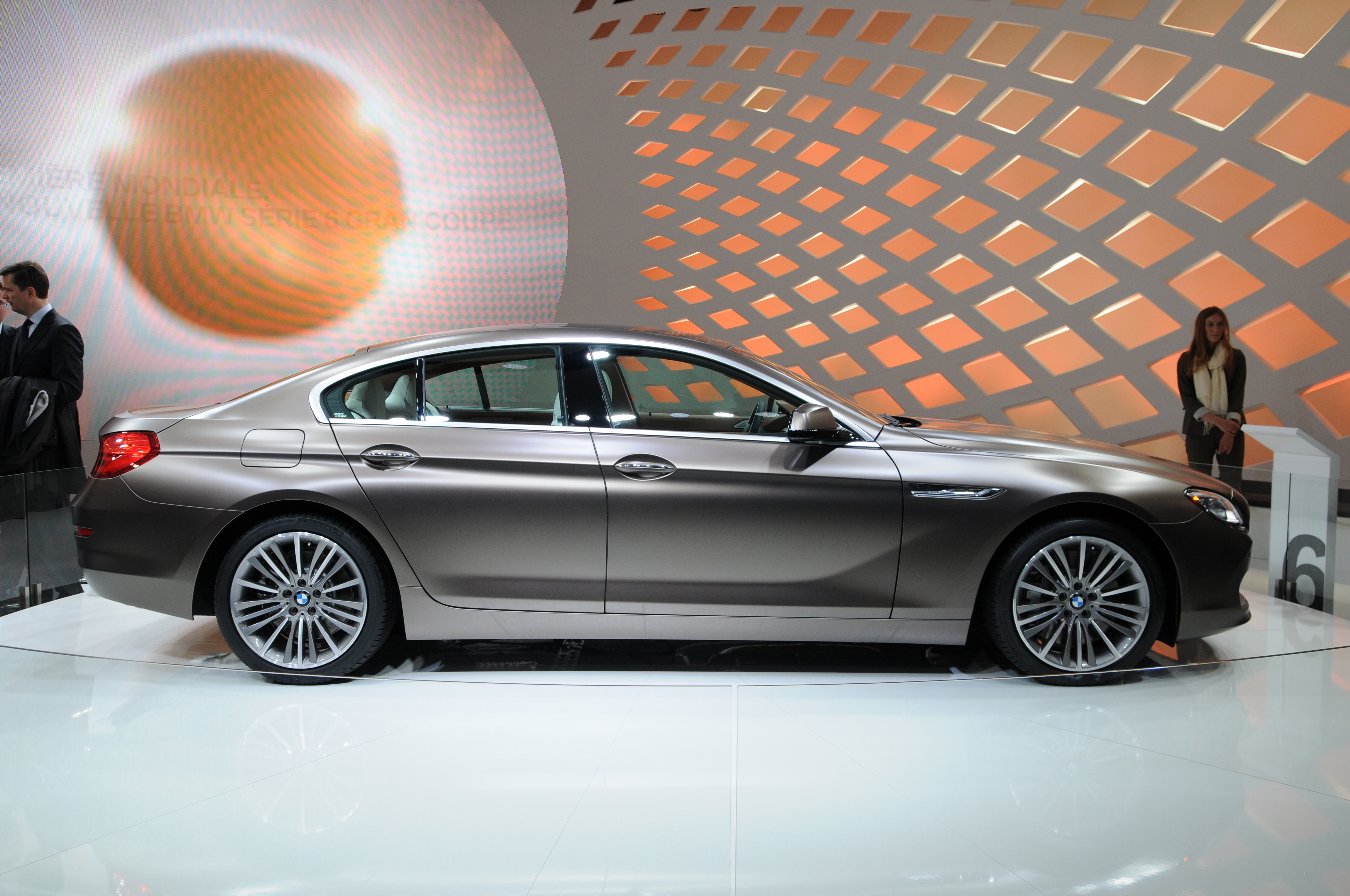 Geneva Motor Show 2012 (photos taken on the second press day)